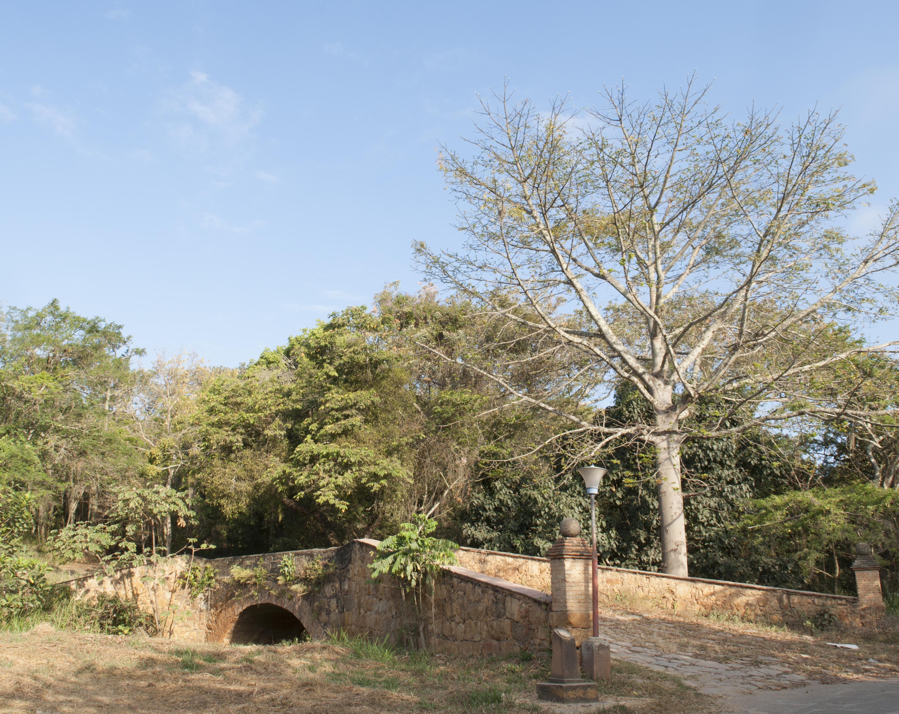 Barichara Bridge